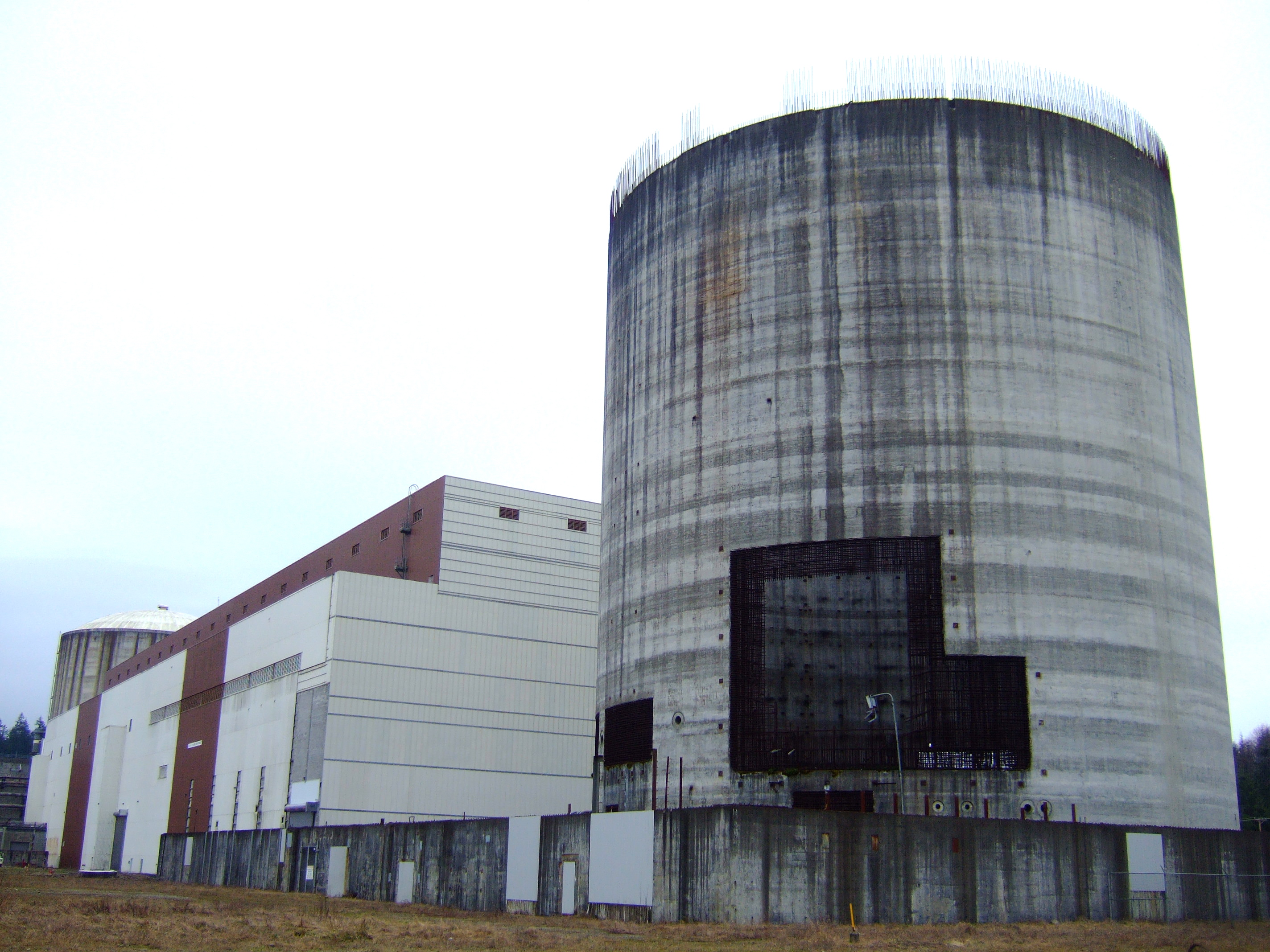 More unfinished buildings. It really doesn't look like the place was 76% done, but I saw that figure cited numerous places.